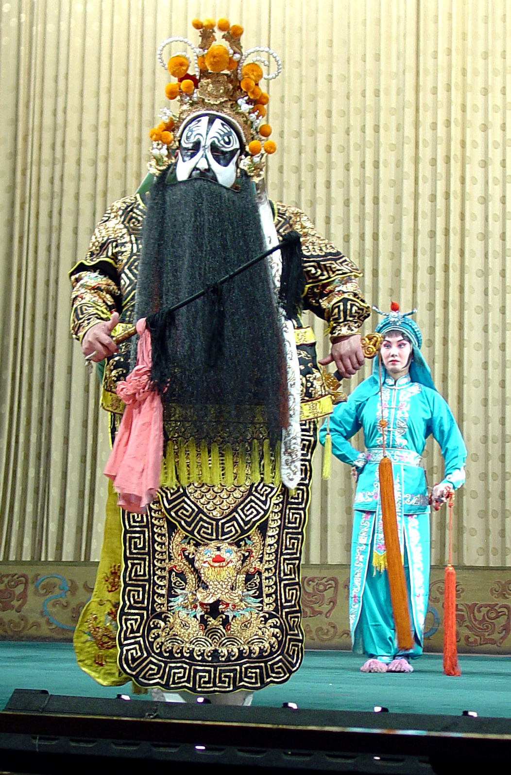 Peking Opera. Beijing, China This actor is dressed as the King of Chu from the historical opera, "Death of Yuji." In the fight for control of China after the fall of the Qin dynasty, the kingdom of Chu was defeated, after which the king and his concubine Yuji had to commit suicide.